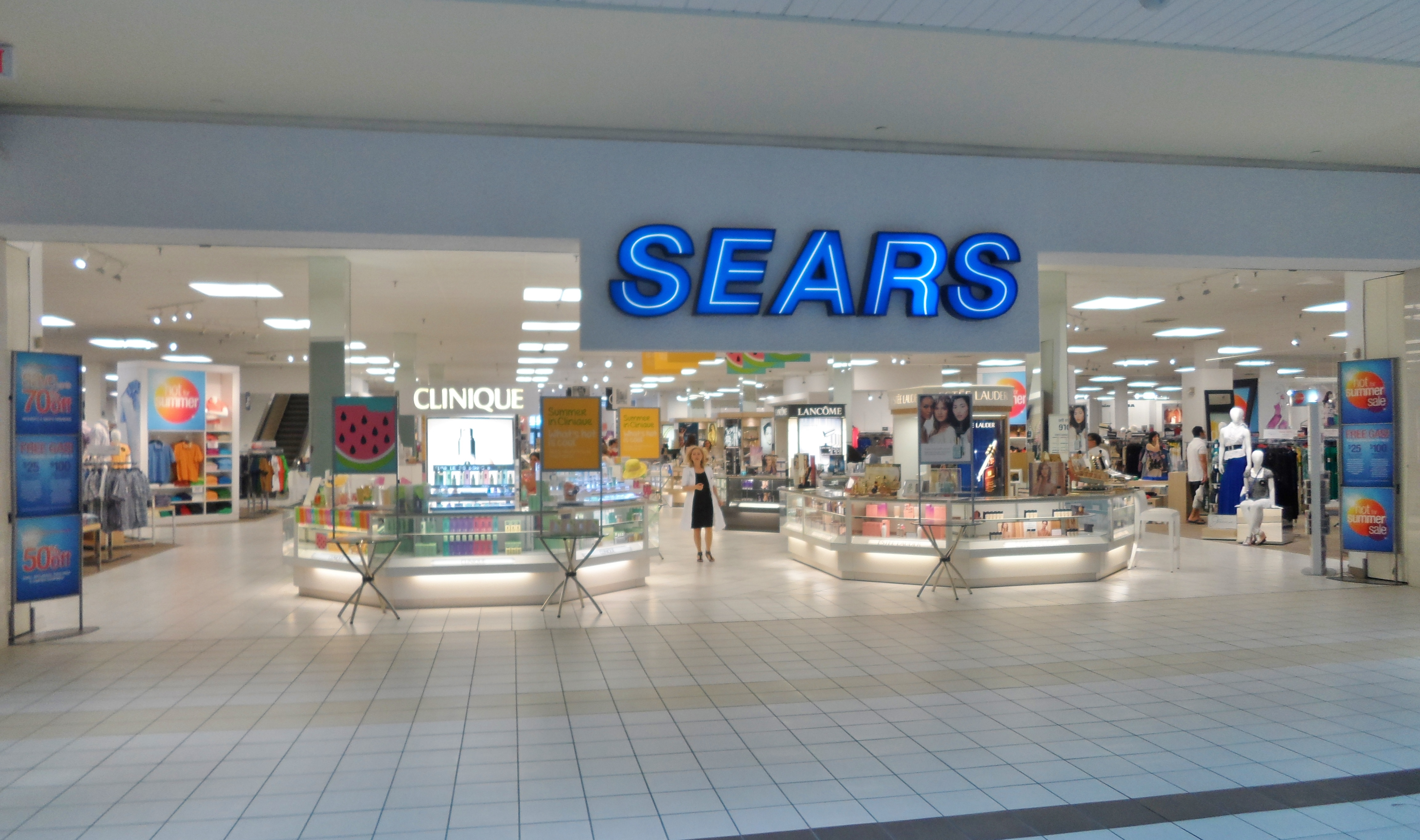 Sears Canada at the Upper Canada Mall, Newmarket, Ontario in 2012.